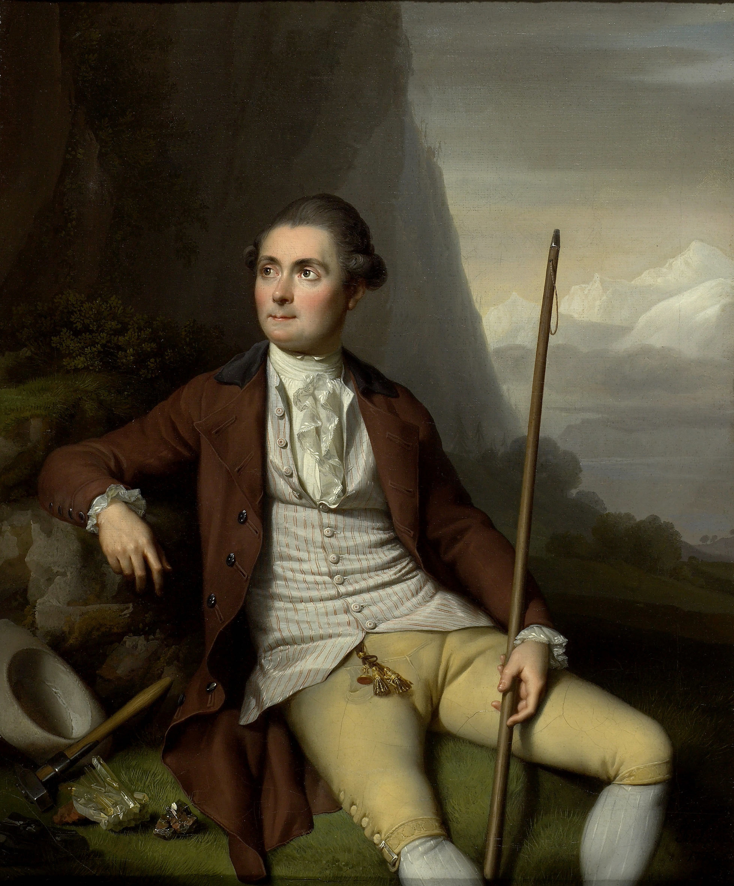 Portrait of Horace Bexedict de Saussure, in the Library at Geneva